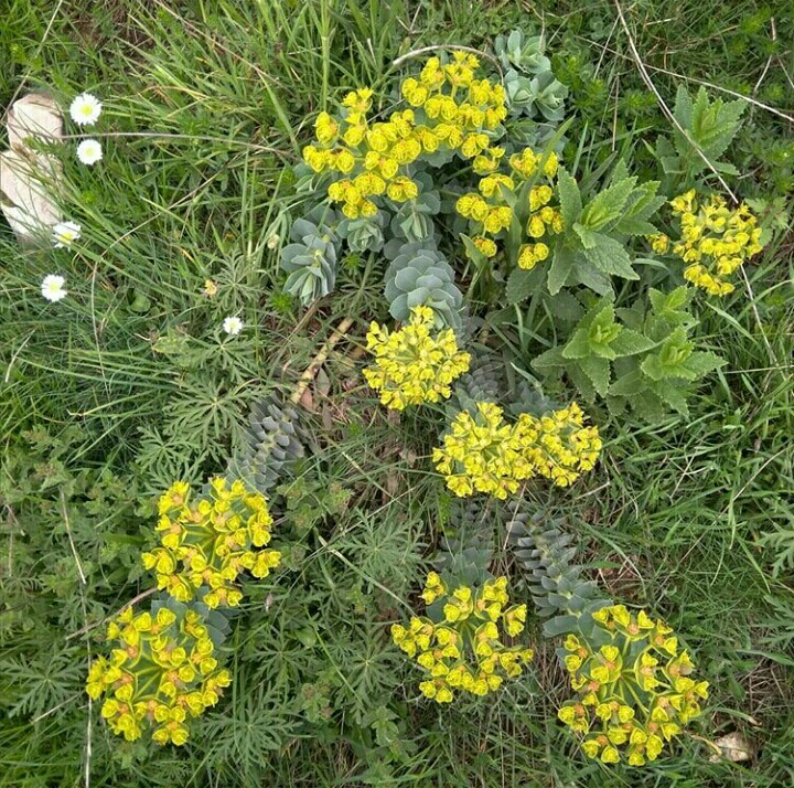 Euphorbia myrsinites in Kerketion mountain (Koziakas), Pindus This is a photography of Natura 2000 protected area with ID GR1440002